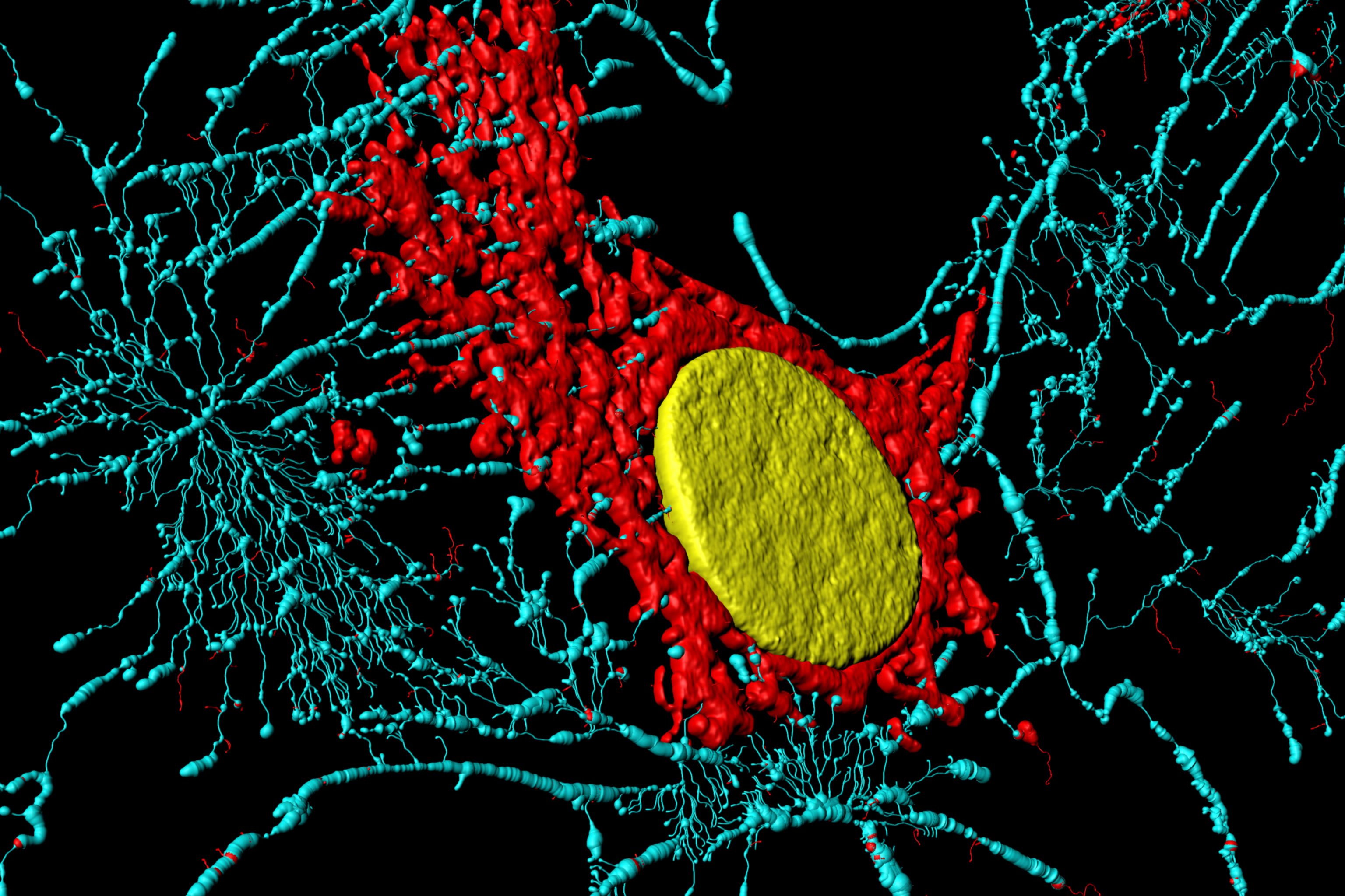 Microfilaments, mitochondria and nucleus in fibroblast cells.